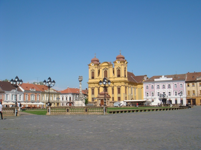 Union Square, Timisoara.